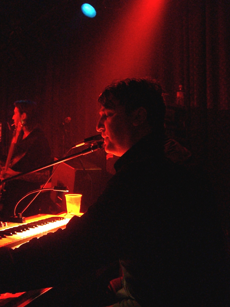 The Twilight Singers performing in Orlando, 2006